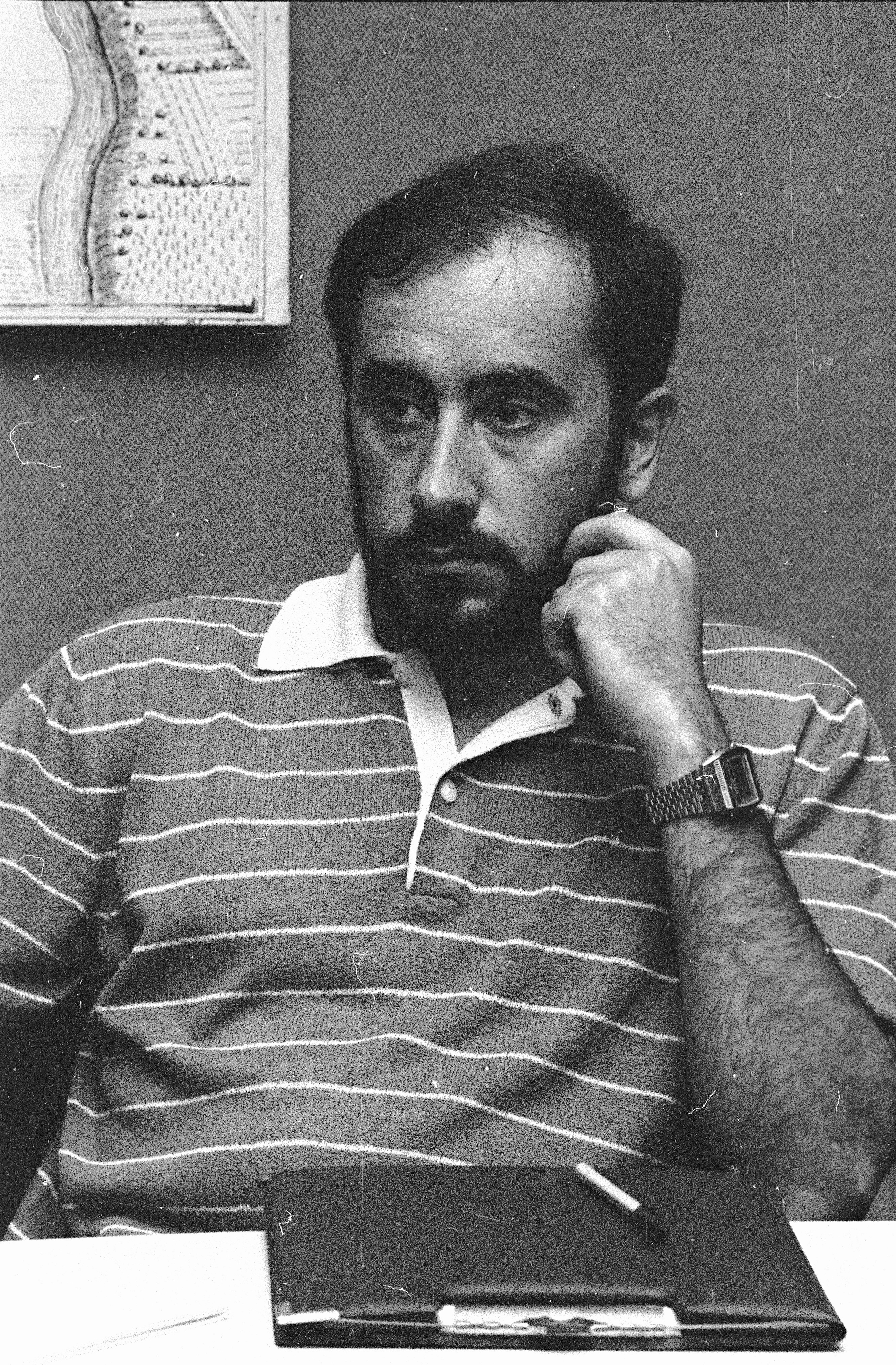 Jesus Mari Txurruka biologist an university lecturer, Iruñea 1984